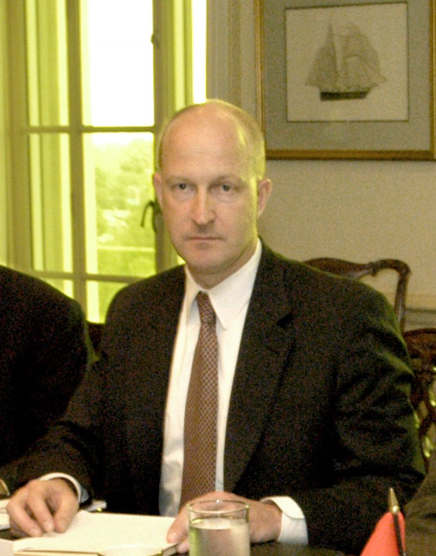 Secretary of Defense Donald H. Rumsfeld (right) hosts a Pentagon meeting with Danish Minister of Defense Soren Gade (foreground) on Aug. 9, 2004. Joining Rumsfeld are several senior Department of Defense officials including (left to right): Director for European Policy (North) Jesse Kelso, Deputy Assistant Secretary of Defense for European and NATO Policy Ian Brzezinski, and Vice Chairman of the Joint Chiefs of Staff Gen. Peter Pace, U.S. Marine Corps.